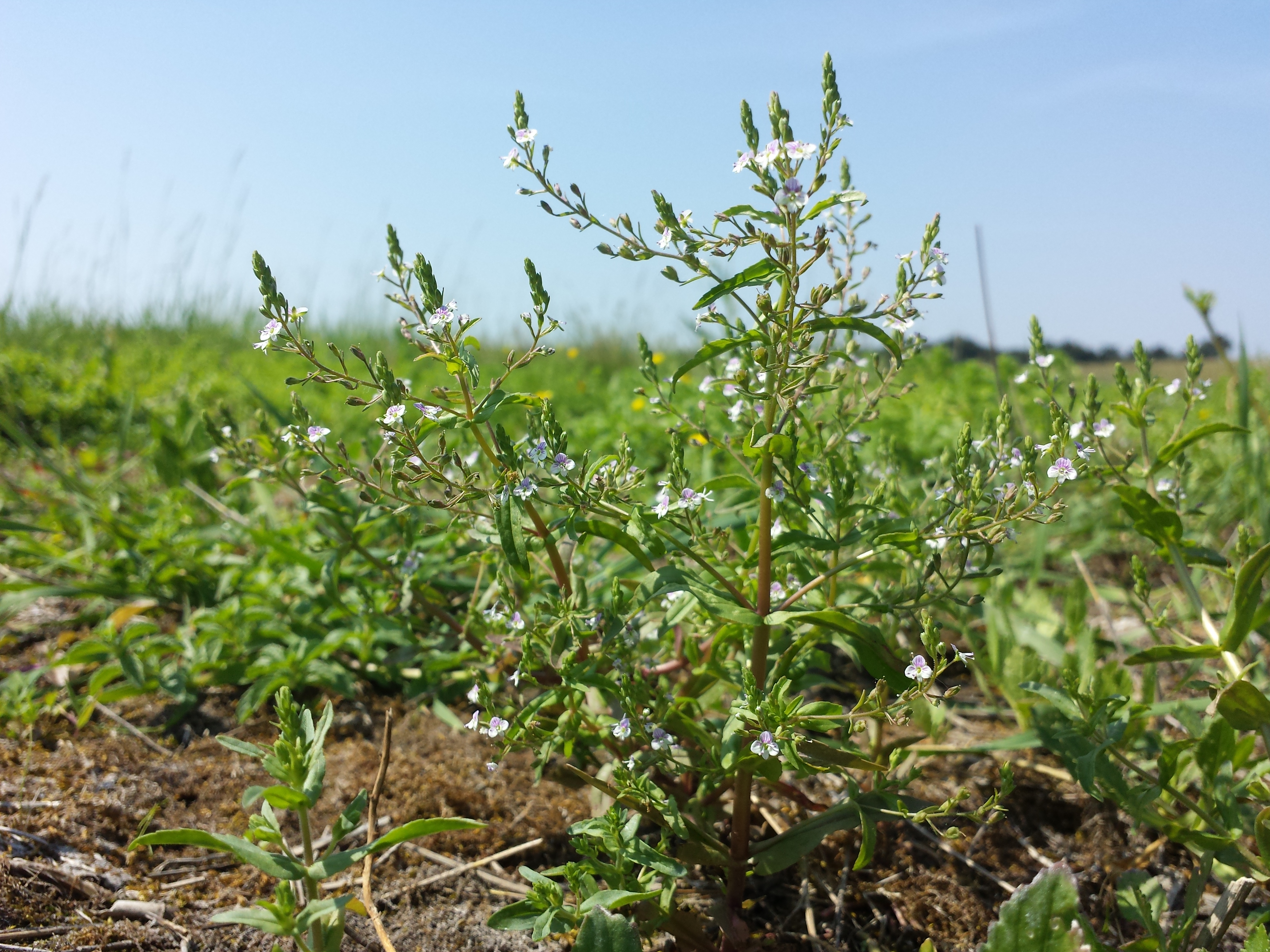 Habitus Taxonym: Veronica anagalloides ss Fischer et al. EfÖLS 2008 ISBN 978-3-85474-187-9; det. Gergely Király 2015-06-07 Location: Dolomite hills to the south of Öskü, Veszprém County, Hungary - ca. 200 m a.s.l. Habitat: wet meadows